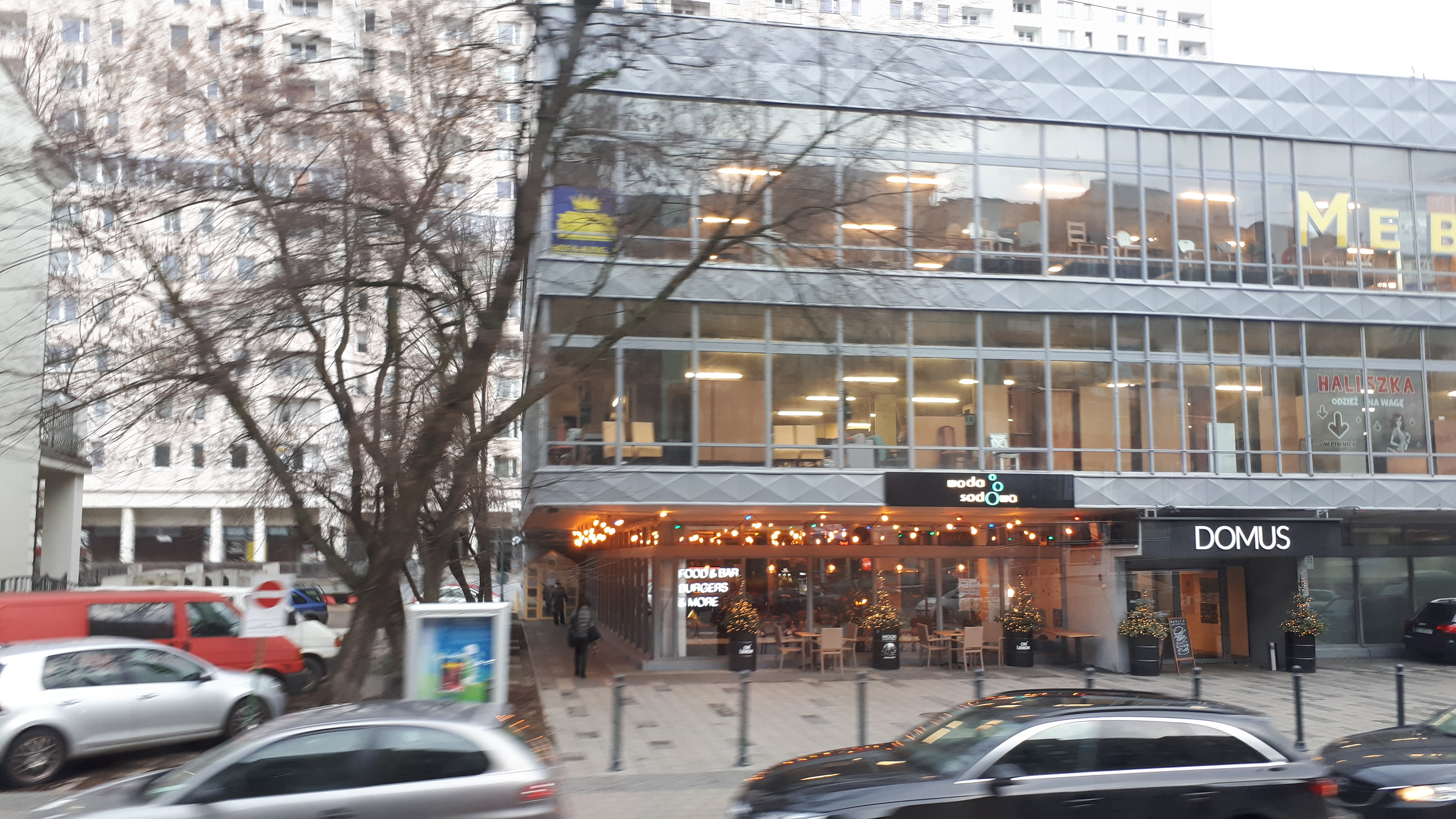 Piotrkowska 190, Lodz